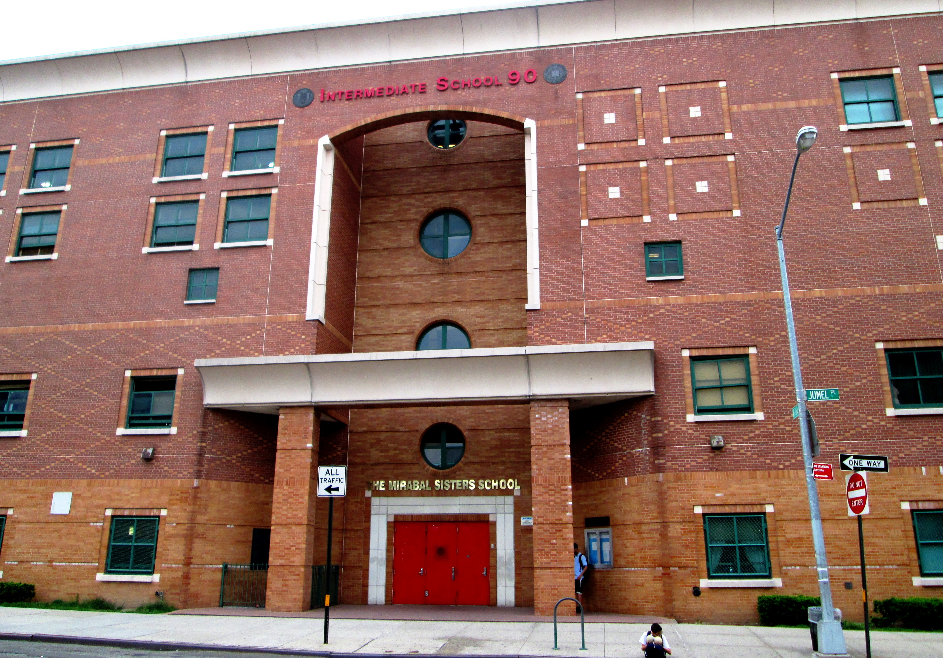 The Mirabal Sisters Campus, located at 21 Jumel Place between West 167th Street and Edgecombe Avenue in the Washington Heights neighborhood of Manhattan, New York City, was built in 1993-94, and opened as I.S. 90, The Mirabal Sisters School, a community school operated in cooperation with the Children's Aid Society. In 2004, it was divided into three middle schools, M.S. 319, the Maria Theresa Middle School; M.S. the Minerva Middle School; and M.S. 324, the Patria Mirabal Middle School. The Mirabal Sisters were four opponents of the Trujillo dictatorship in the Dominican Republic, three of whom were assassinated by the regime on November 25, 1960 . (Source: Mirabal Sisters Campus Fact Sheet)